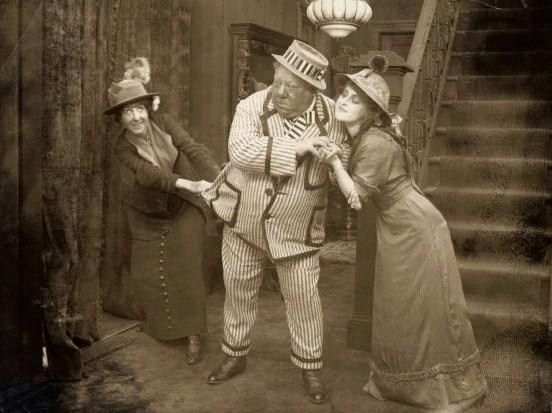 L. to R. : Flora Finch, John Bunny & Mary Anderson in Father's Flirtation - publicity still (original image damaged, modified and cropped : see source)